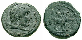 Campania, Capua. Circa 216-211 BC. Æ Semuncia (3.10 g). Diademed head of Heracles right; club over left shoulder Cerberus standing right. HN Italy 502; SNG ANS 218; Sambon 1044; Good VF, dark grayish green patina. Rare.